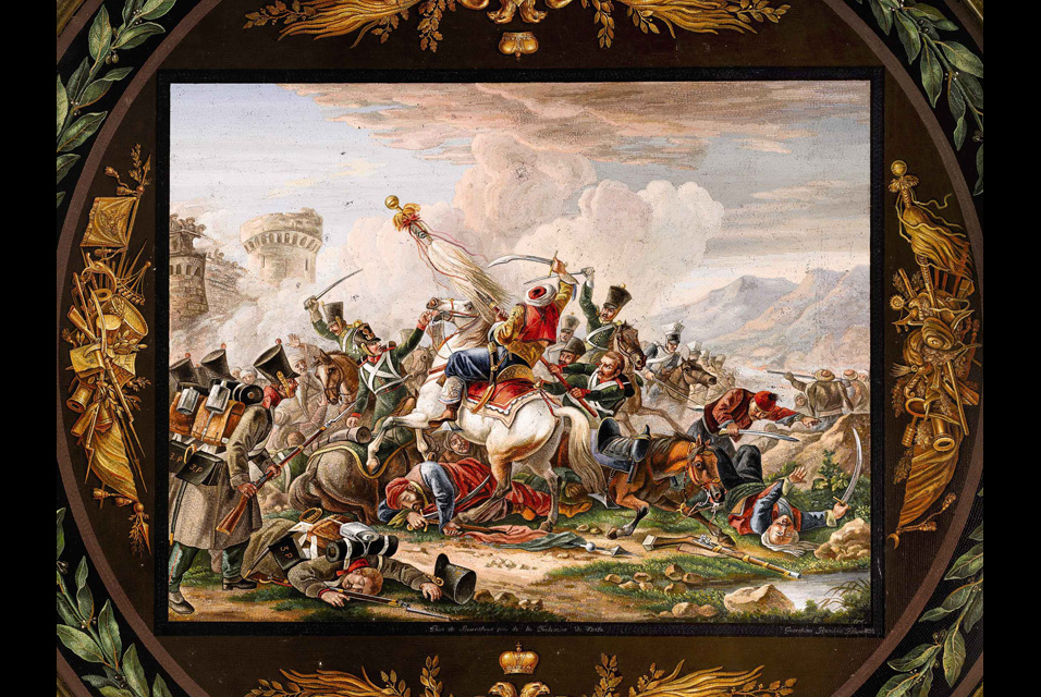 Micromosaic table top by Gioacchino Barberi after Alexander Orlovski, made for the top of a table for the Russian Court, 1830-33